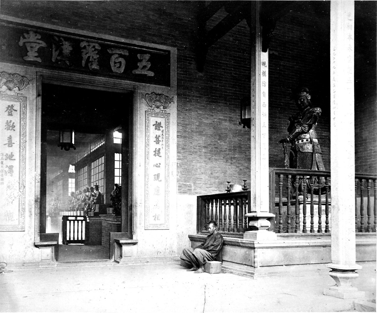 photo from Photographic Views of Canton